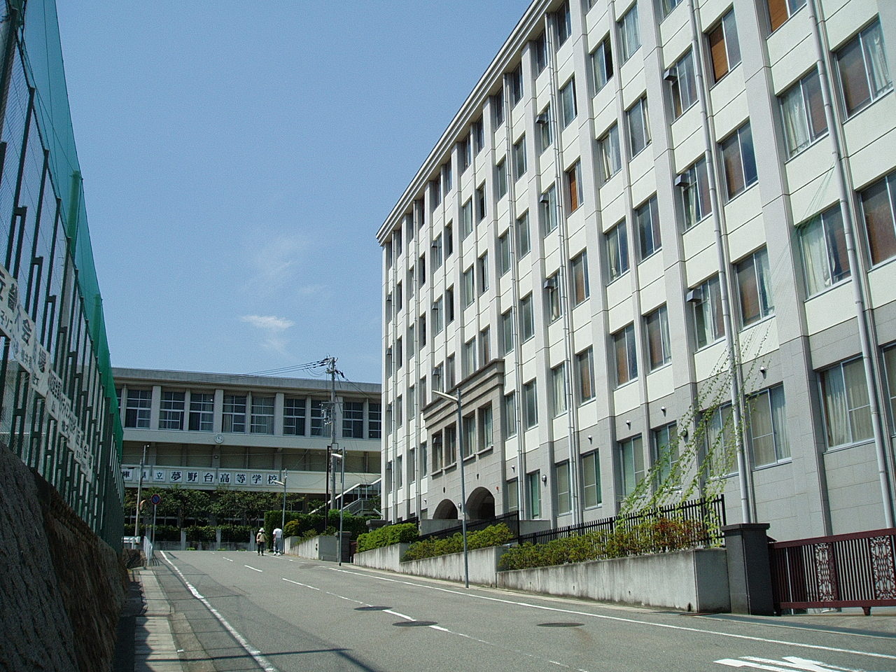 South Building (Main Building) and Gym (left) of Hyogo Prefectural Yumenodai High School.